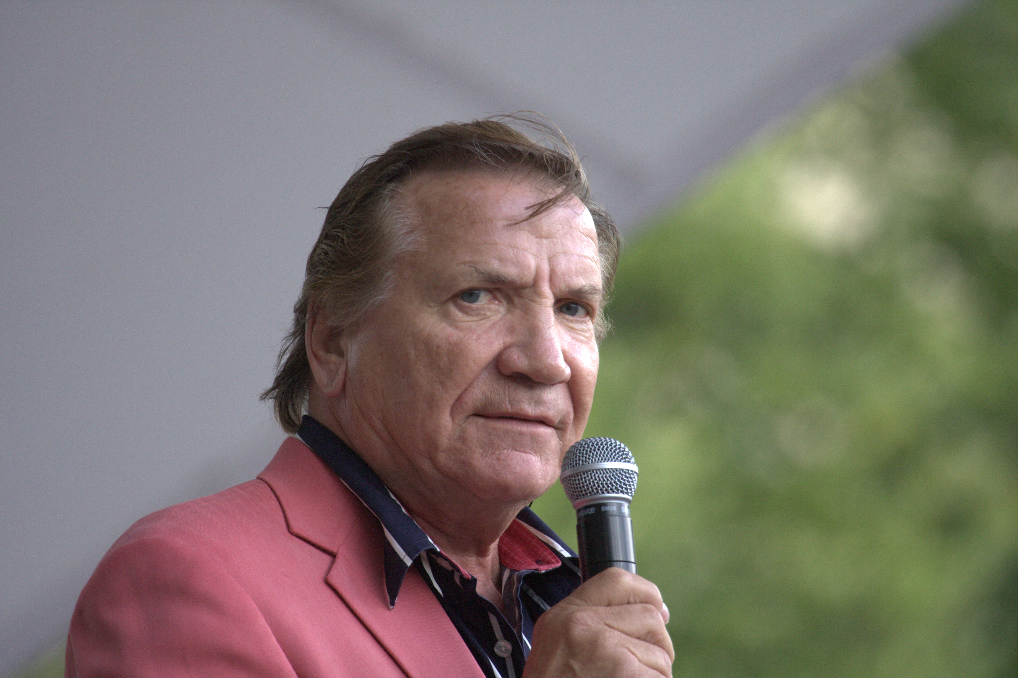 Eino Grön finnish singer